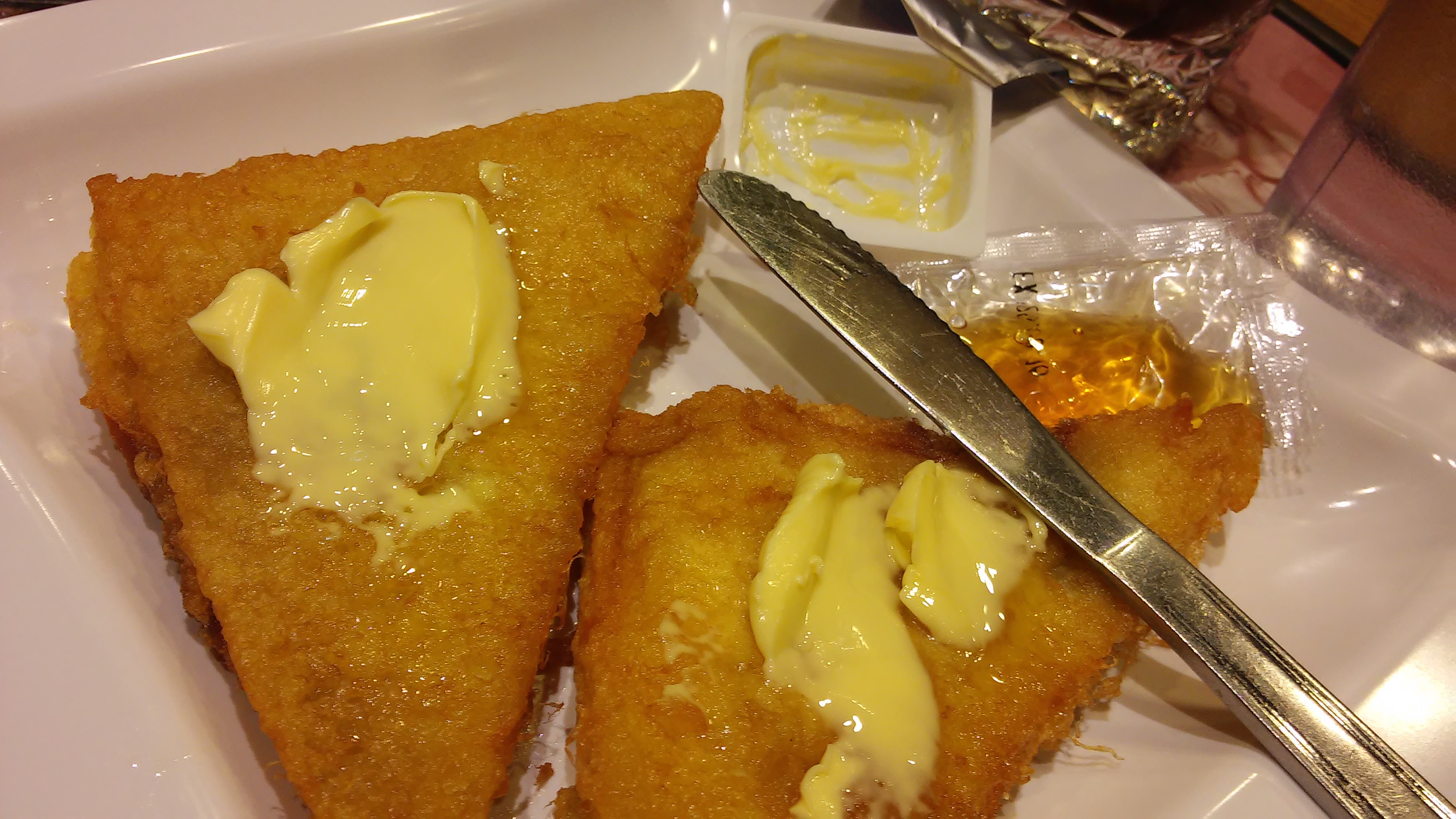 Aternoon tea set, Cafe De Coral Restaurant, Oct-2015